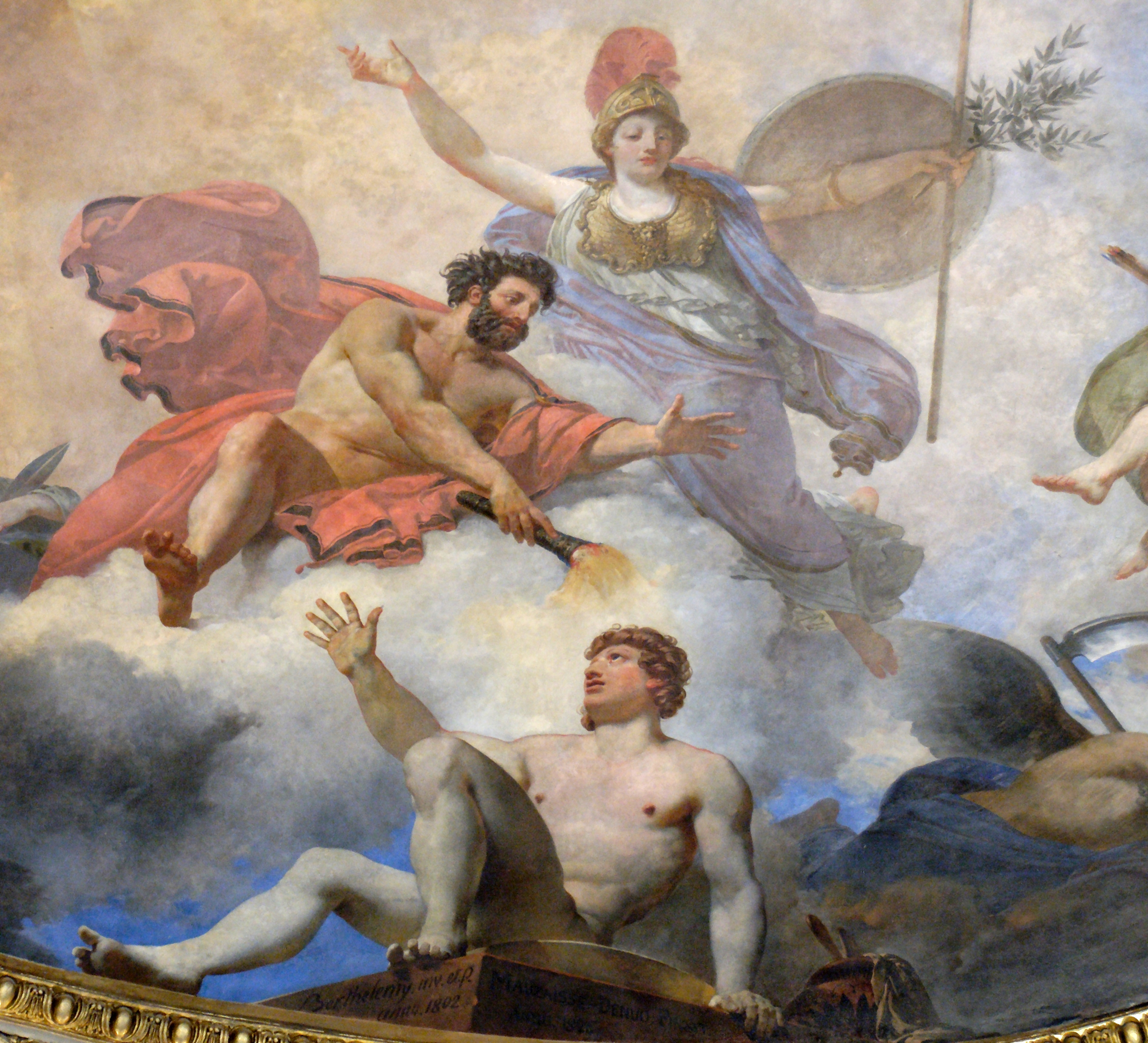 Painted in 1802 by Jean-Simon Berthélemy, painted again by Jean-Baptste Mauzaisse in 1826.